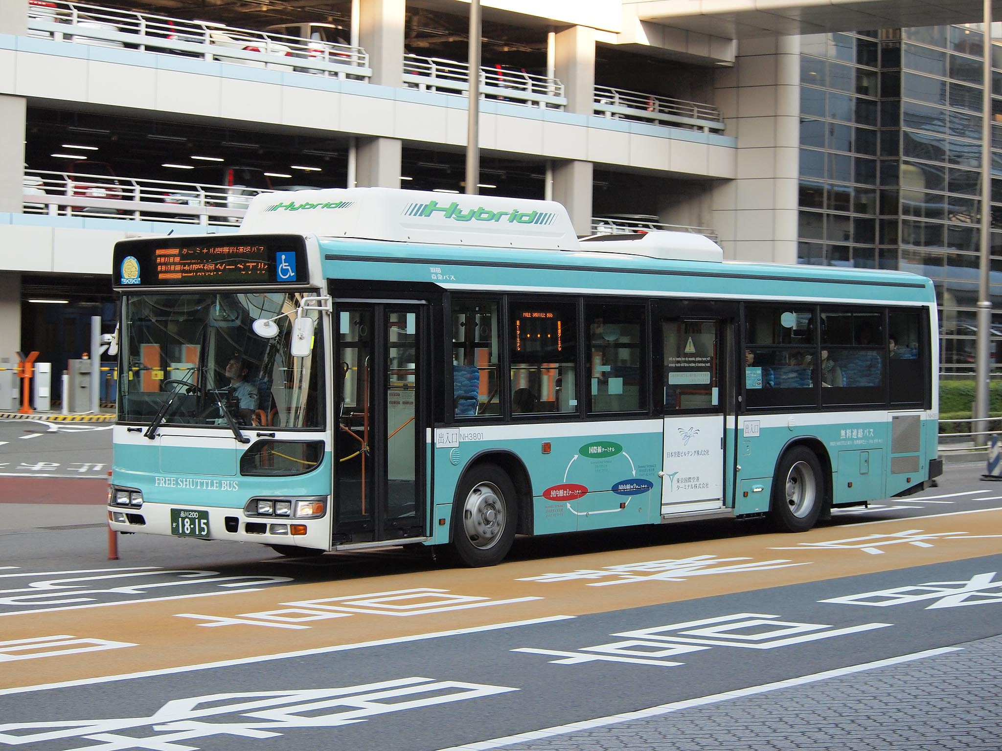 Hino Blue Ribbon City Hybrid for Haneda Keikyu Bus, as terminal shuttle of Tokyo International Airport since 2008. Model：BJG-HU8JMFP License plate: TKS200 KA1815 Place: Tokyo International Airport, Ota ward, Tokyo Japan